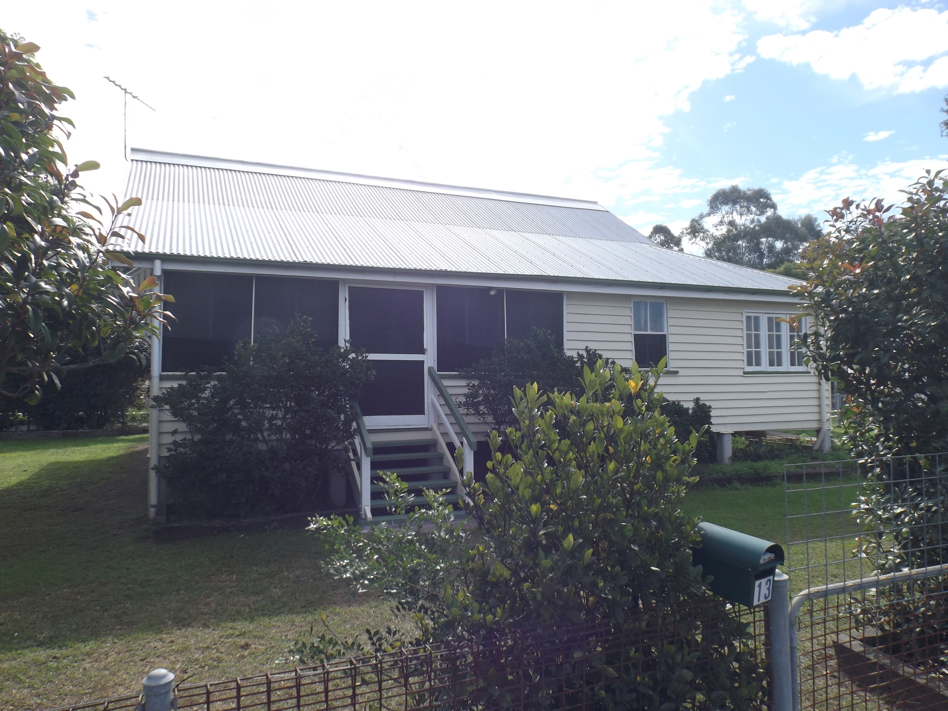 Photo of the side of Rosewood Courthouse at Rosewood, Ipswich, Queensland, Australia.